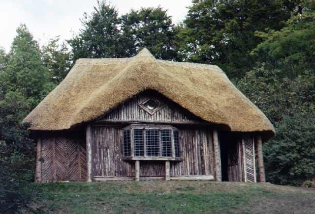 The Bear's Hut, Killerton Gardens. Property of the National Trust. The landscape gardens include this rustic summer house, known as the Bear's Hut -- where one of the family kept a bear in the 19th century.